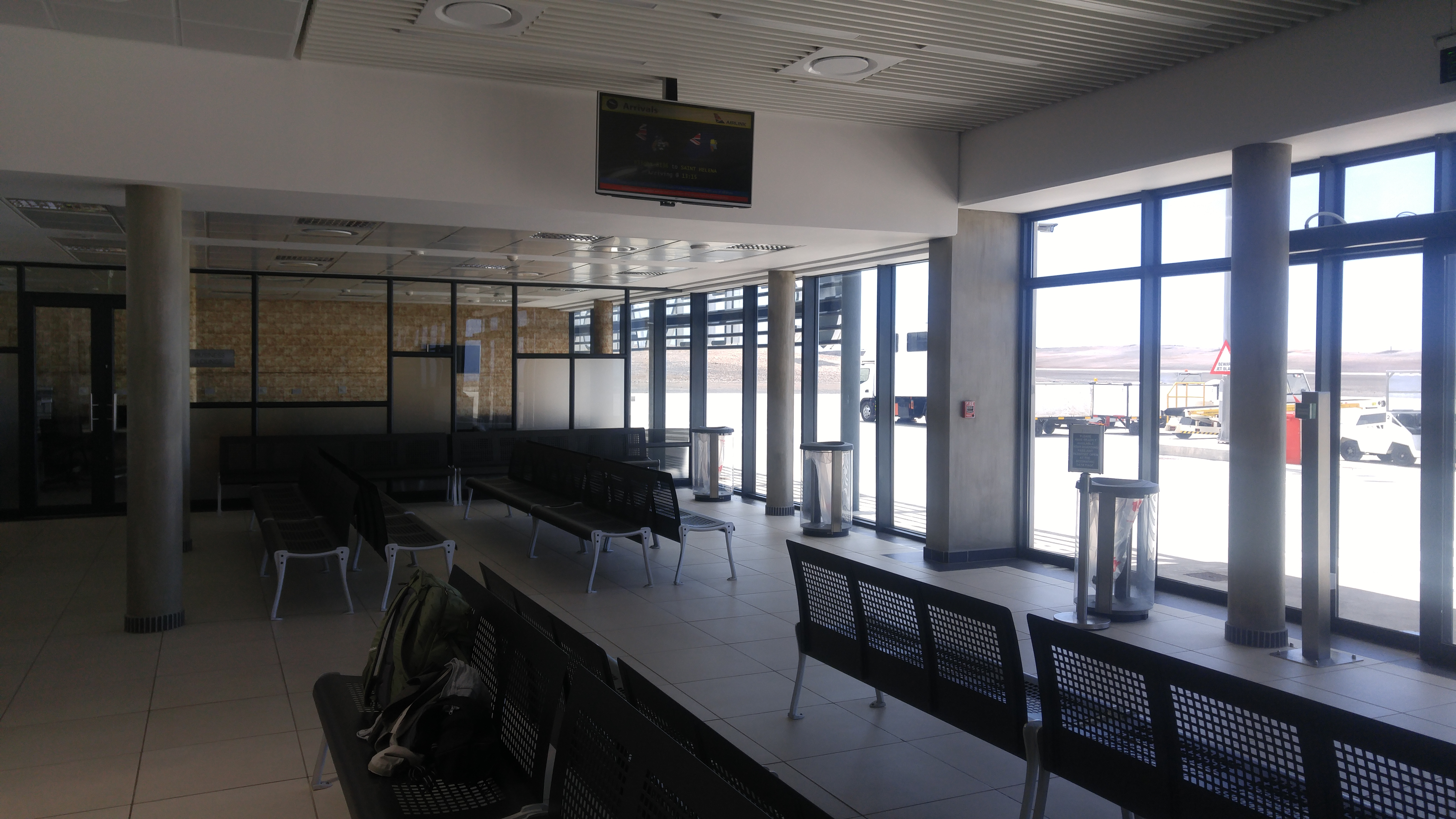 waiting lounge at Saint Helena Airport, March 2020